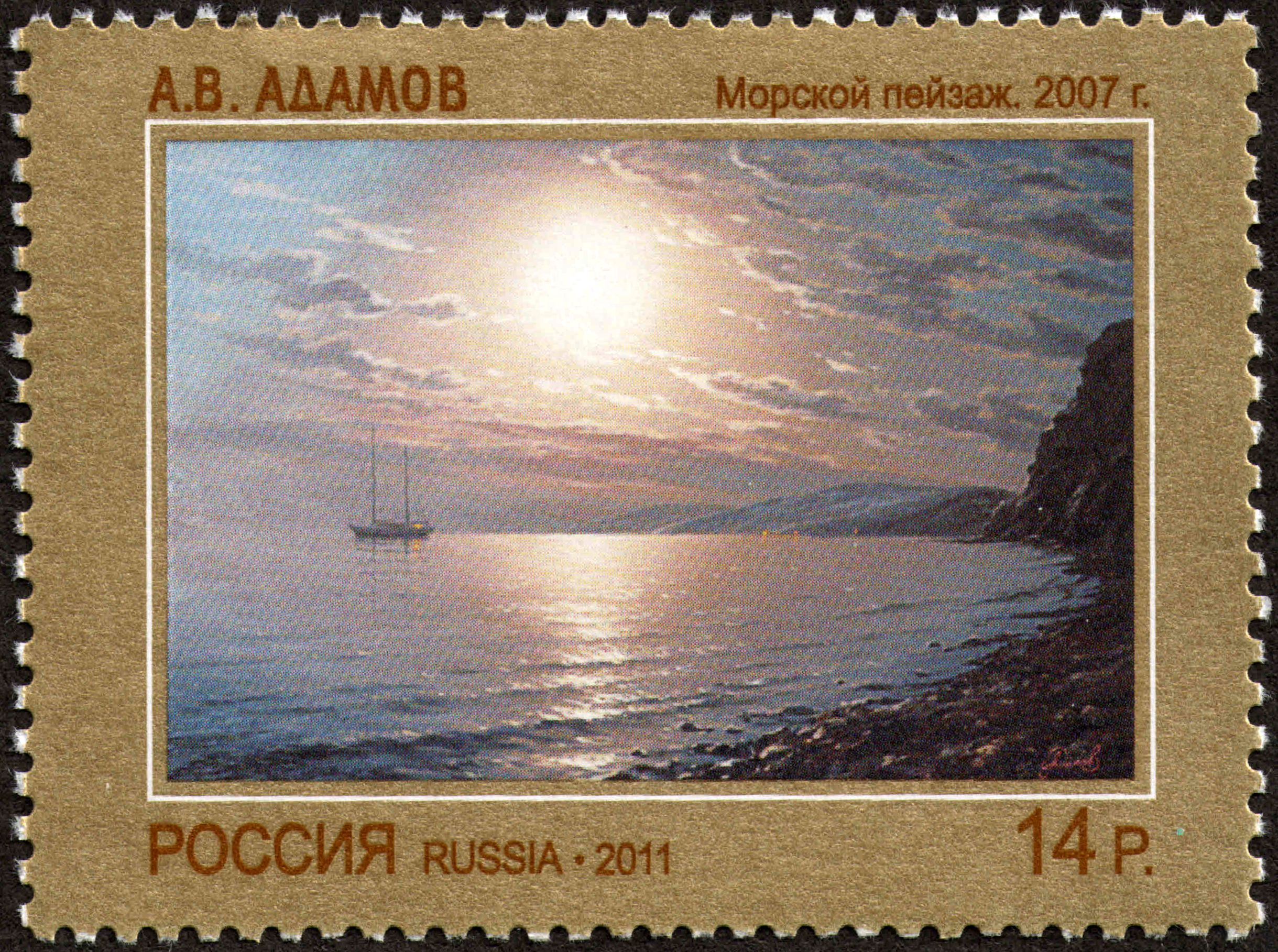 The contemporary art of Russia (the ongoing series, issue I).The Seascape by Aleksey Adamov. 2007.Alexey Vladimirovich Adamov (born 1971) is a Russian painter, a member of the Russian Union of Artists.The stamp of Russia, 14.00 Rubles, 12 September 2011, PTC Marka Catalogue No 1512, Michel No 1744. Coated paper, varnish coating, bronze paste. Offset printing. Perforation: comb 12:11½. Size of the stamp: 50×37 mm. Print run: 270,000.